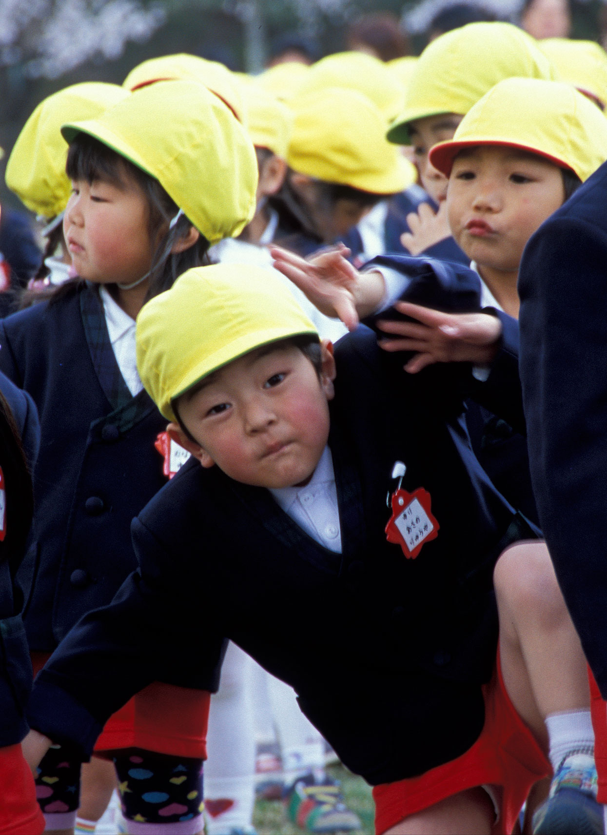 At the castle ground of Aizu Wakamatsu, energetic school kids couldn't wait for the cherry blossom "hanami" picnic to start.